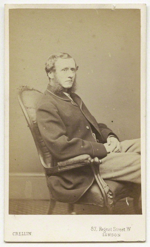 Edward Spencer Beesly, National Portrait Gallery